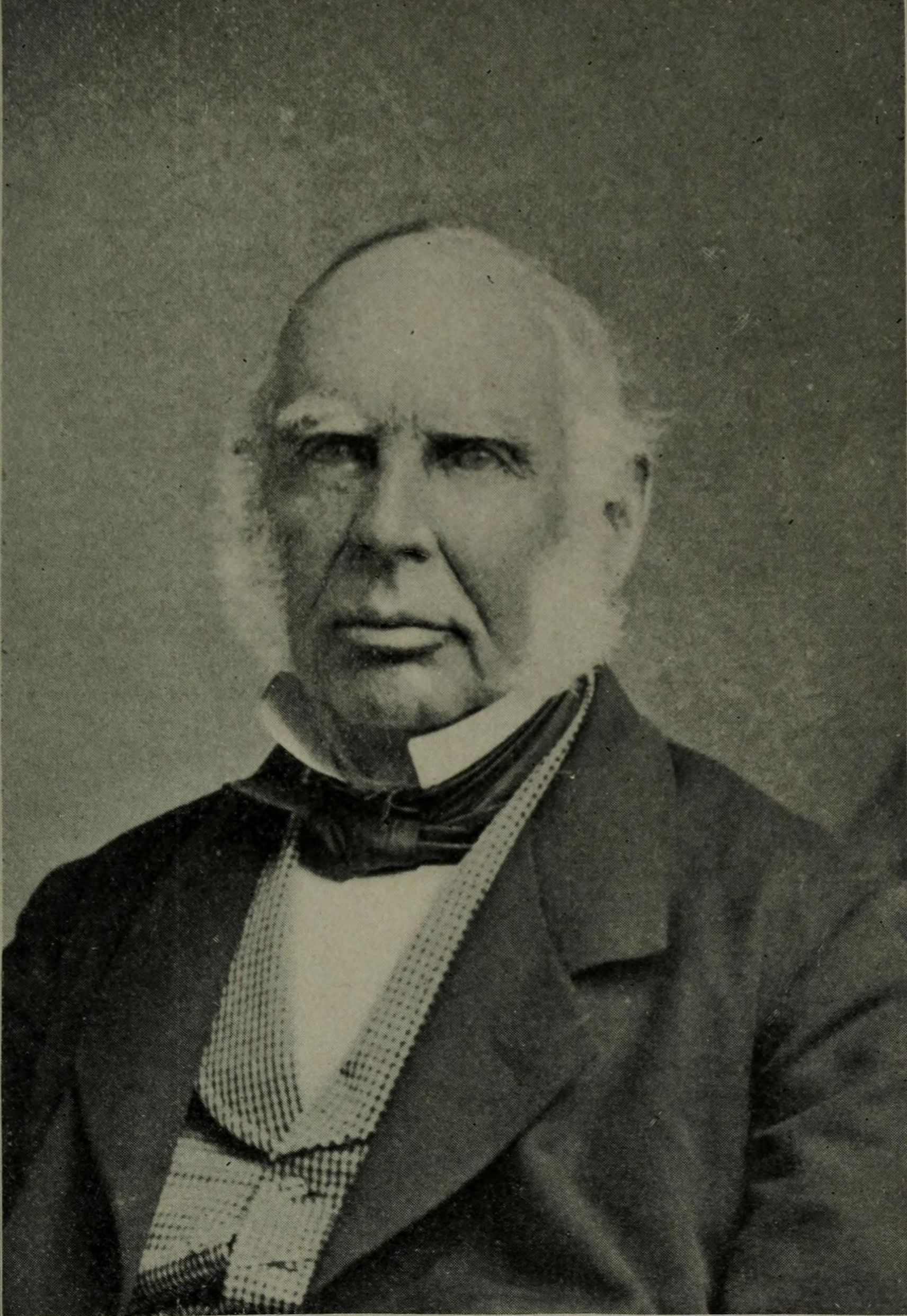 Charles Brewer (1804–1885), namesake of C. Brewer & Co., a company in Honolulu, Hawaii.